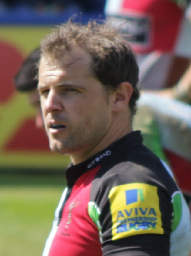 Evans playing for Harelquins against Saints in May 2013